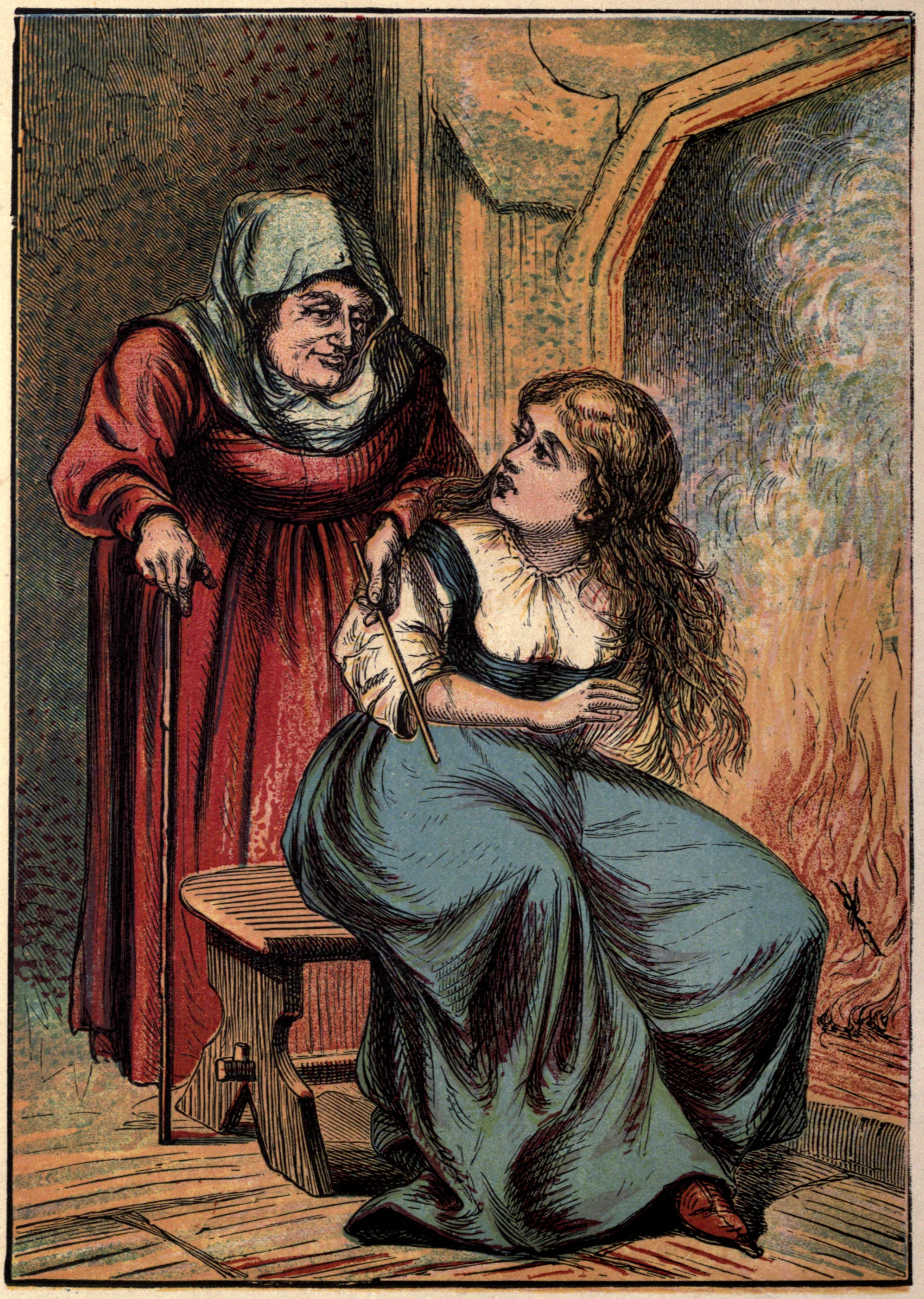 The third illustration of the 1865 edition of Cinderella. It appears on page 6.